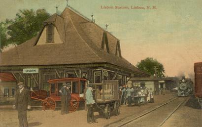 Lisbon Station, Lisbon, NH; from a 1912 postcard.